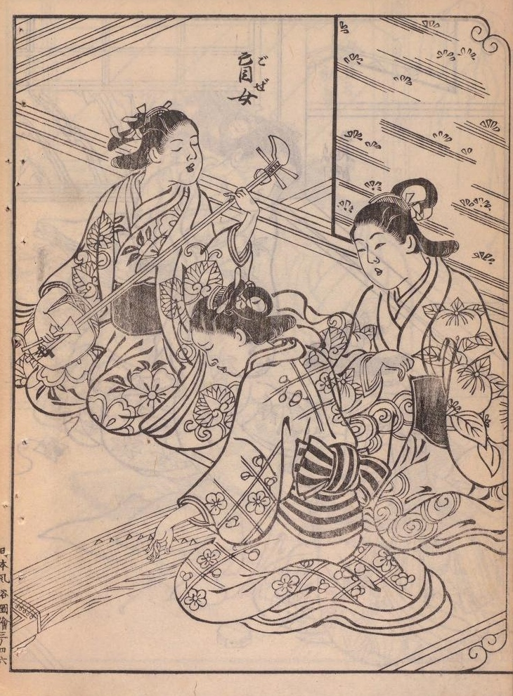 Goze(The Japanese musicians , they are blindness women.)